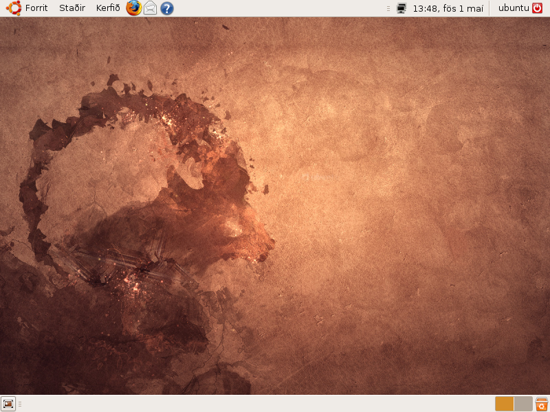 Screenshot of Ubuntu 8.10.